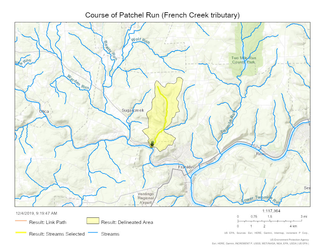 Map of the course of Patchel Run (French Creek tributary) in Venango County, Pennsylvania.